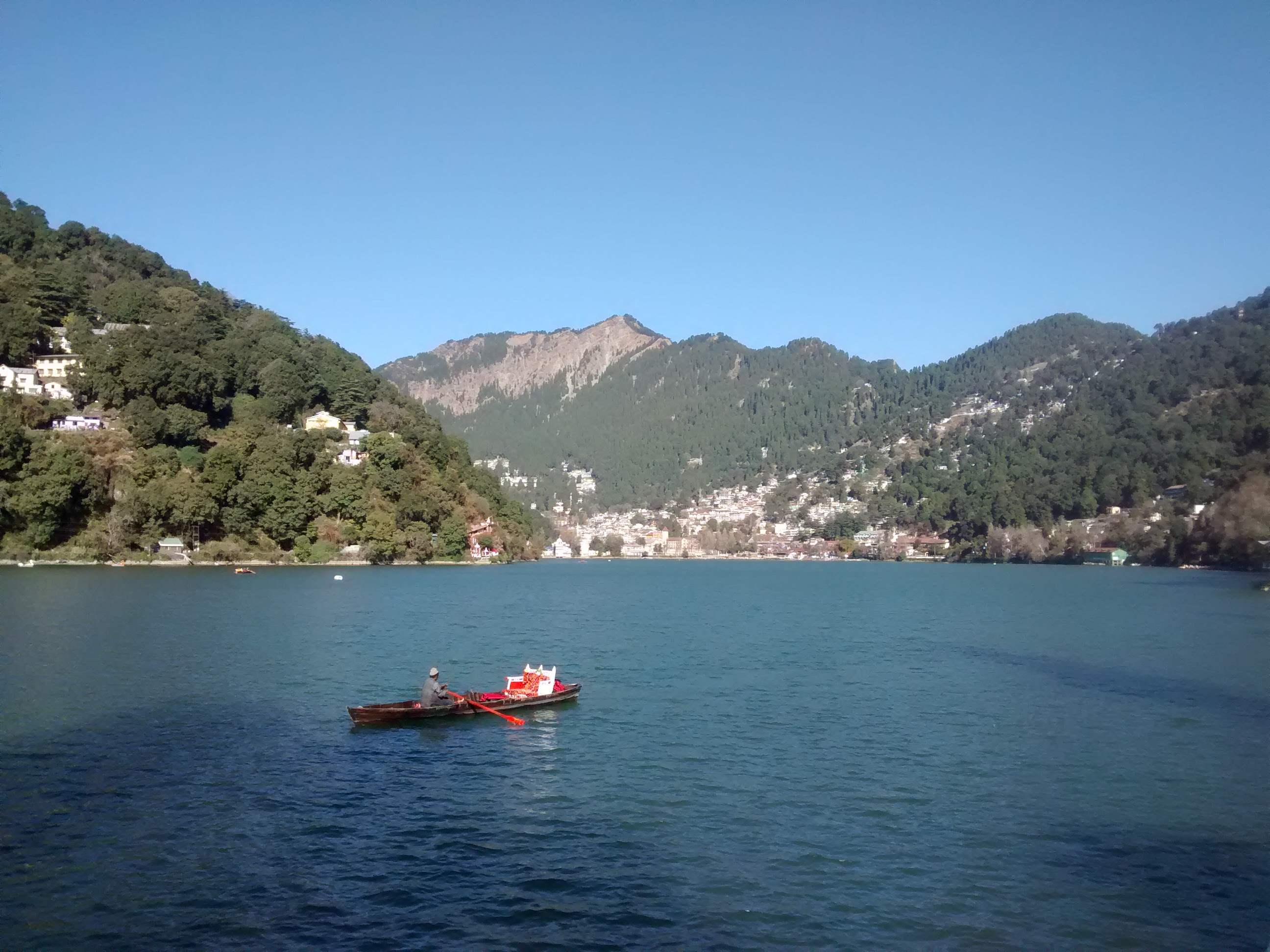 This image is scenic view of the Nainital Lake from Tallital, the lower end of the lake.